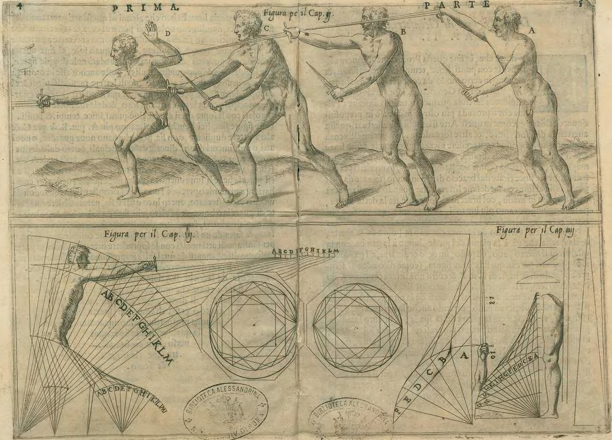 Digital scan of Camillo Agrippa's "Di M. Camillo Agrippa Trattato di Scienza d'arme. Et un dialogo in detta materia", provided by Alessandrina University Library of Rome, Italy